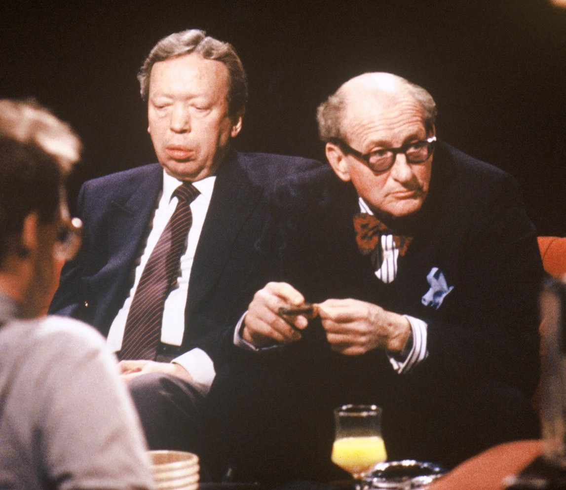 Anthony Howard (left) and Lord Lambton (right) appearing on After Dark on 2 February 1991. Other guests included Duncan Campbell, Jane Moore and Clare Short. More here.